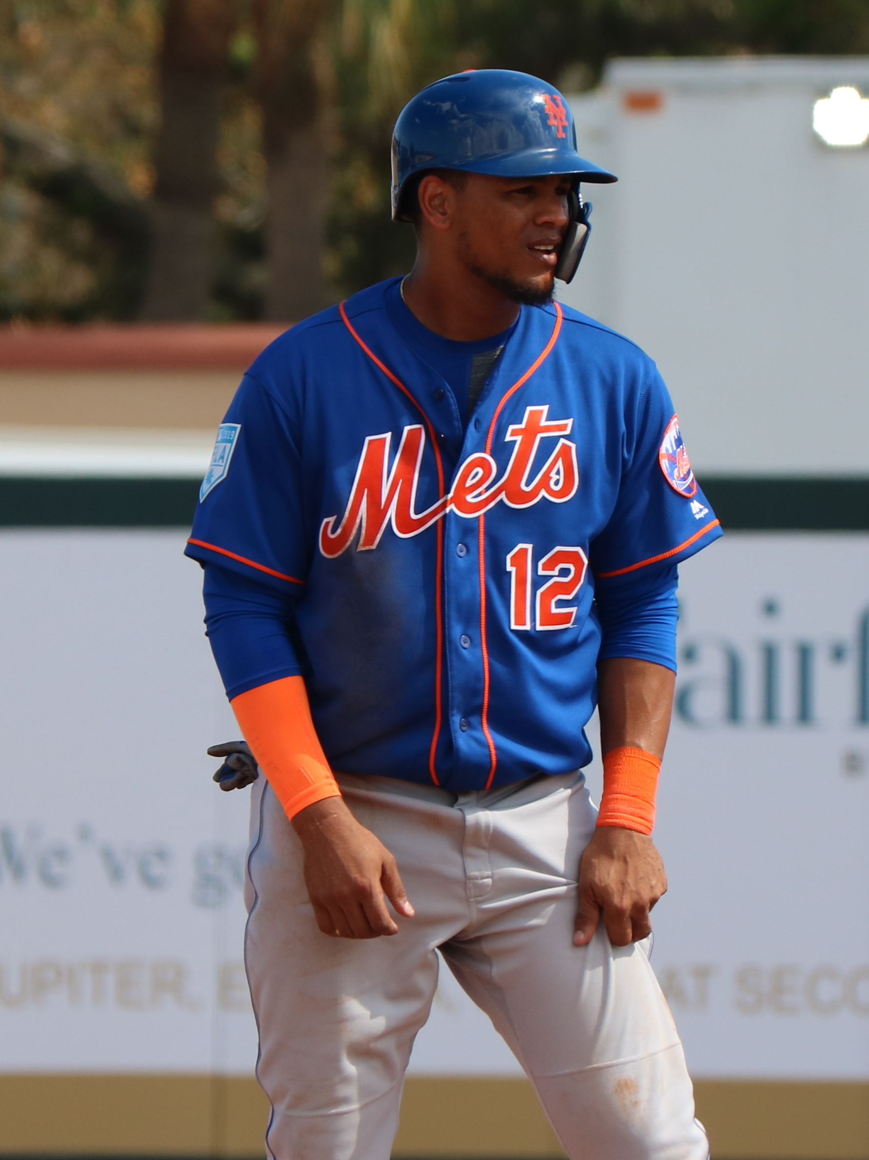 Juan Lagares runs the bases, March 3, 2019